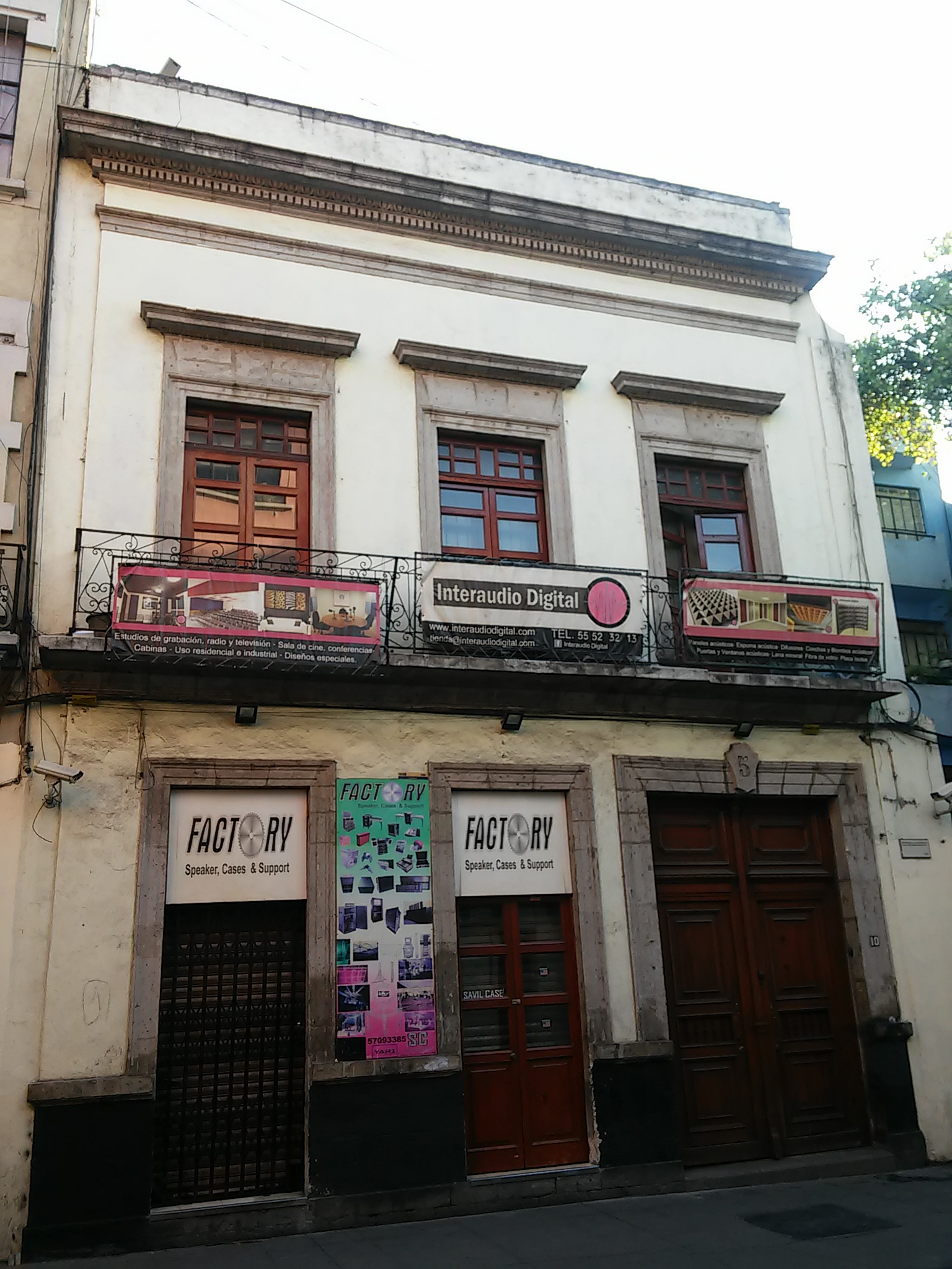 Casa donde nació Guillermo Prieto, en Mesones número 10